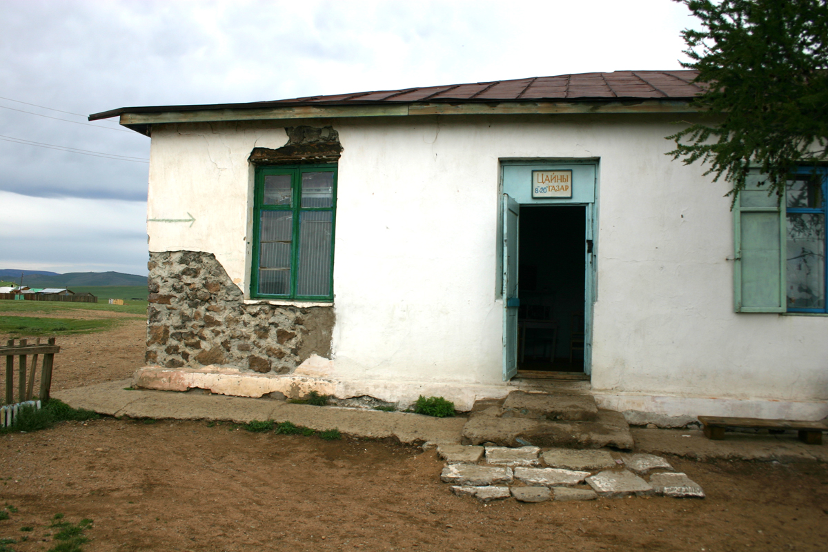 Restaurant in Erdenemandal author: m.a.billings